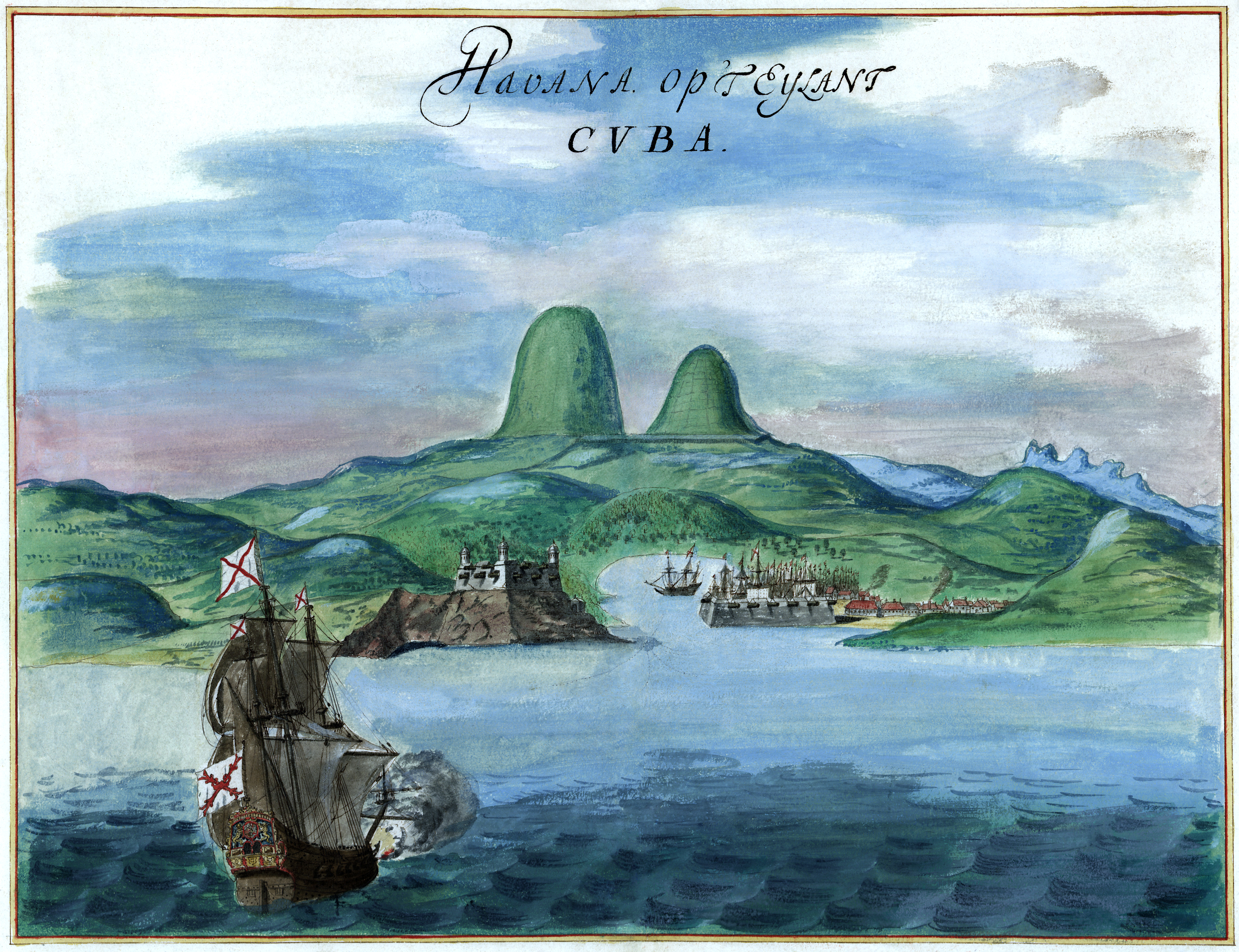 "Havana op 't Eylant CVBA." (Havana Harbor) Pen-and-ink and watercolor.